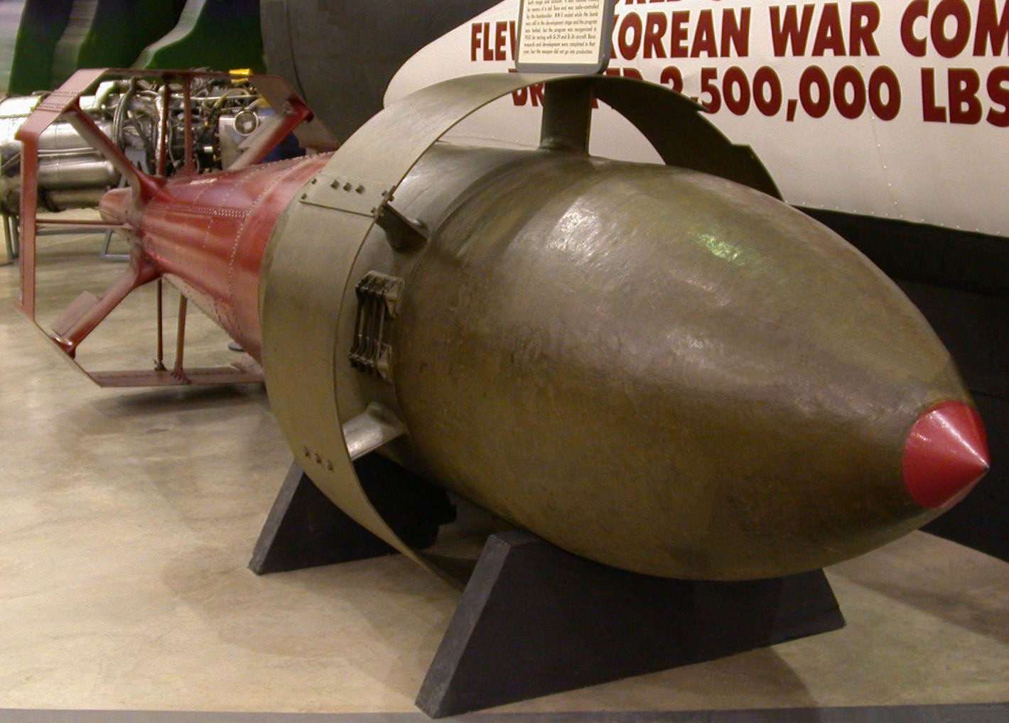 VB-13/ASM-A-1 TARZON guided bomb on display at the National Museum of the United States Air Force.